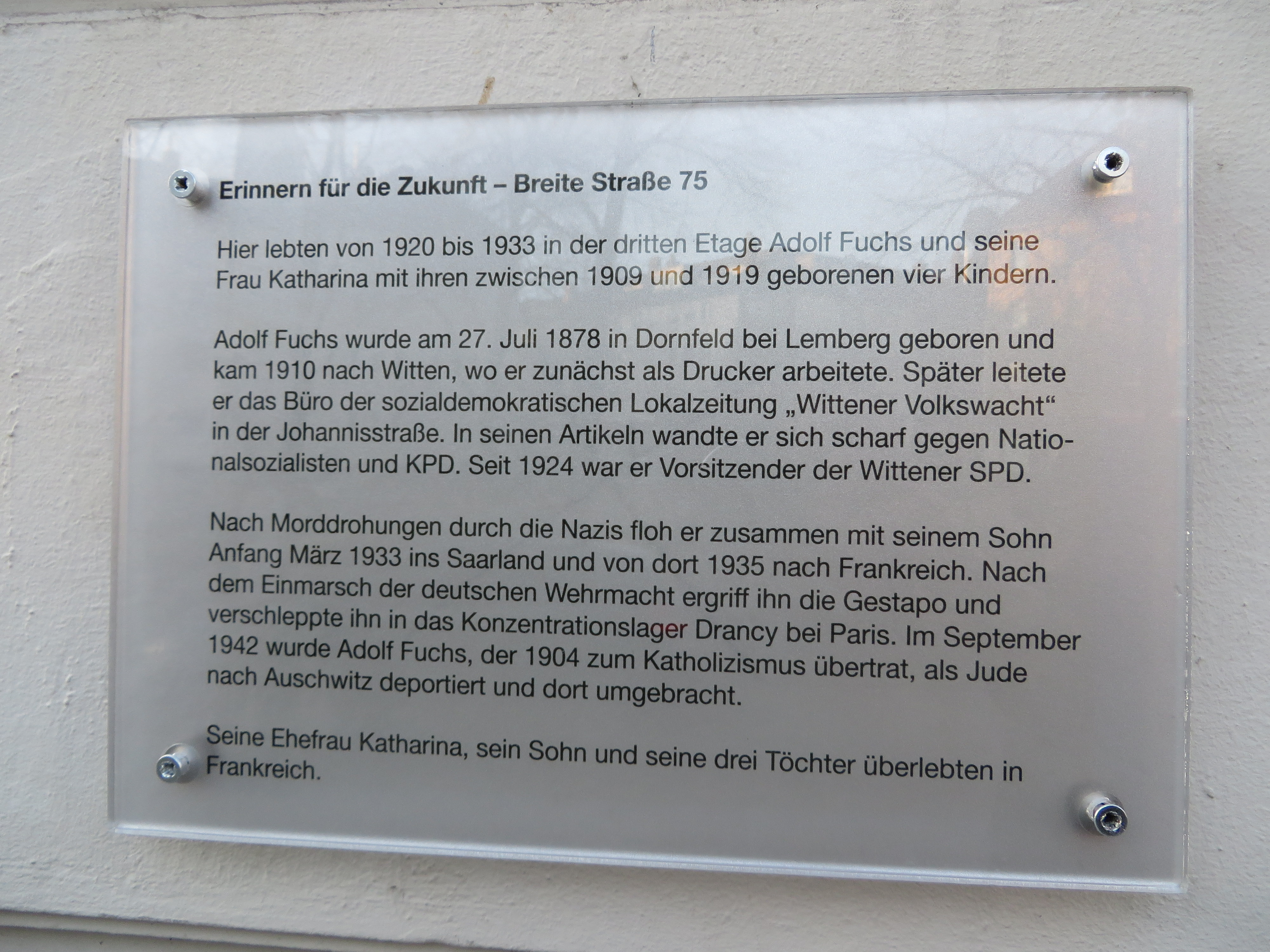 Commemorative plaque at house Breite Straße 75 in Witten, Germany